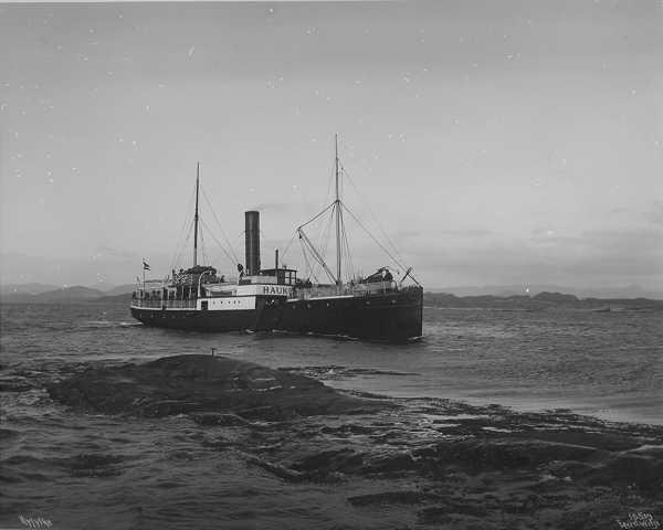 Norwegian steamship SS Haukelid built in 1869.